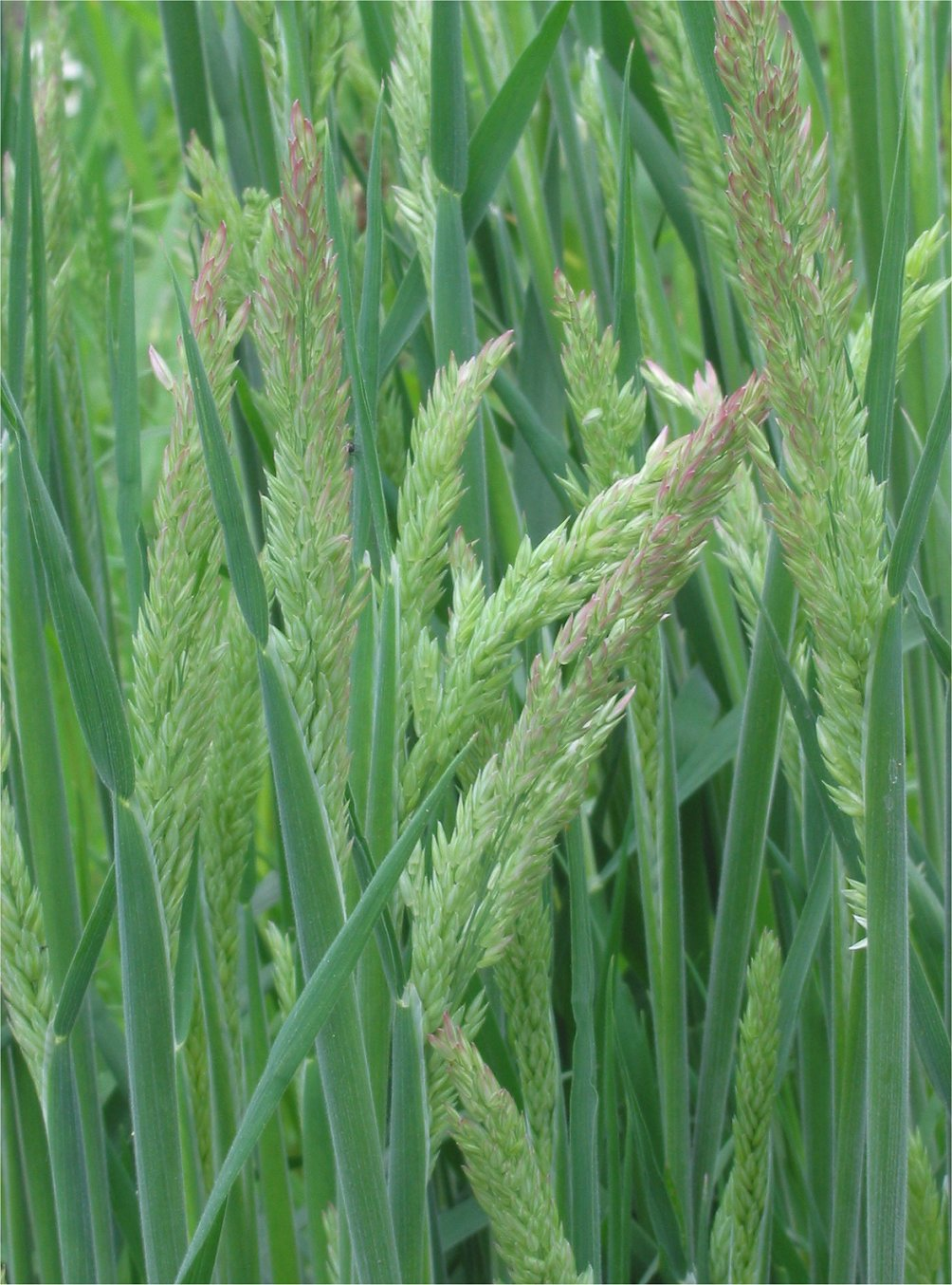 Holcus lanatus Gestreepte witbol